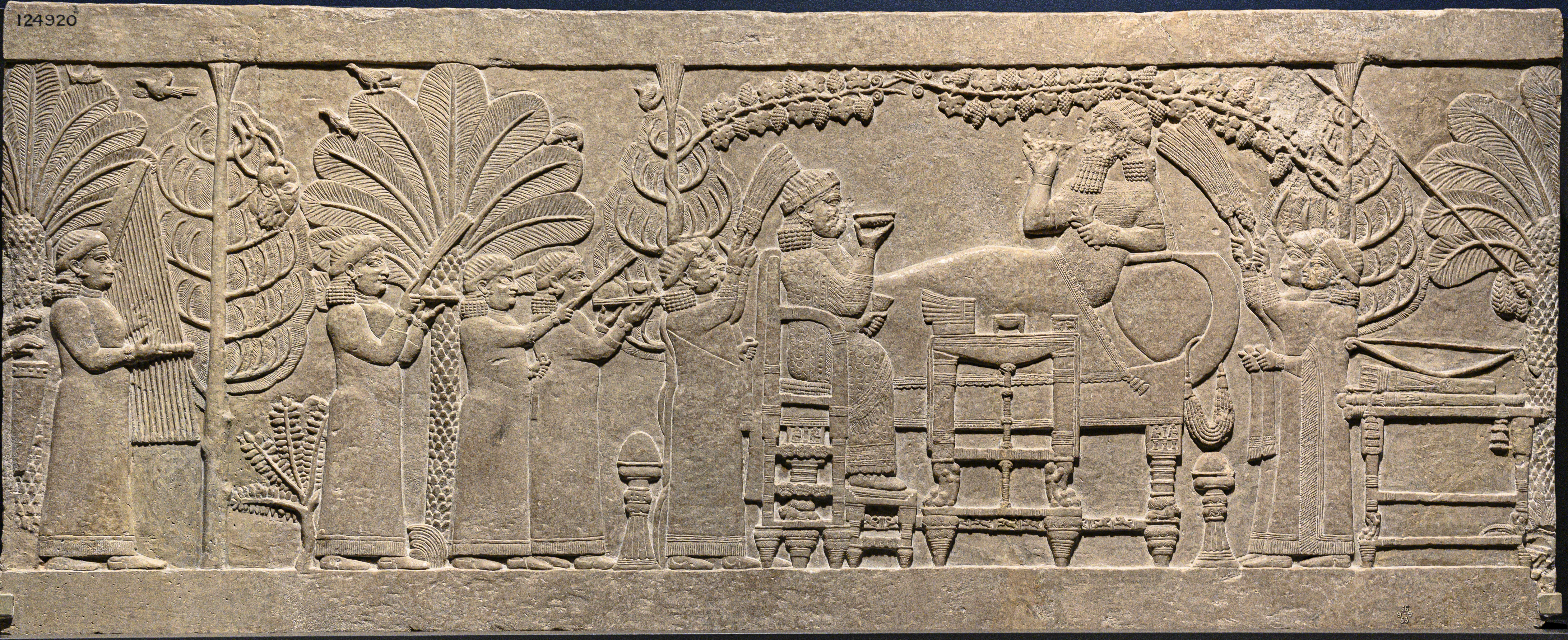 Assyrian Relief of the Banquet of Ashurbanipal From Nineveh N Palace, Gypsum, British Museum. Ashurbanipal reclines on a banqueting couch beneath an arbor of vines, facing his queen, shown seated on a throne. His sword, quiver, and bow lie on a table at right, signaling his military prowess. Attendants fan the royal couple while musicians play in the background. In a gruesome detail, the severed head of the Elamite king Teumman, killed in Battle against Ashurbanipal's army eight years earlier, hangs from a tree branch at left - another reminder of the Assyrian king's ruthless pursuit of power and empire. Ashurbanipal and his queen Libbali-sharrat depicted dining. The severed head of Elamite King Teumman is hanging in a tree to the left.[1] An Egyptian necklace hangs from the curved angle of the couch, probable symbol of his conquests in Egypt.[2] A bow with a quiver are exposed on the table, probable symbol of his conquest in Elam.[2] This relief is associated with another fragment showing the humiliation of an Elamite king forced to serve food to Ashurbanipal.[2] British Museum BM 124920.[3]